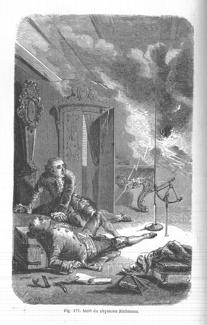 Death of Georg Wilhelm Richmann